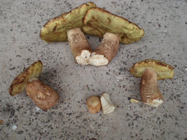 Boletus subcaerulescens ( E. A. Dick & Snell) Both, Bessette & A. R. Bessette Location: Luzerne Co., Pennsylvania, USA Observation Notes: Found this species (presumably) once before, on a lawn under Norway Spruce in October. Until finally getting a copy of B/R/B, this “bluing edulis” had completely perplexed me. These were found along the border of a mature oak forest (with other hardwoods mixed in). Bluing was noticable only slightly on the pores, and a bit more on the flesh just above the where the tubes attach to the cap undersurface. Looks like B. pinophilus, only with bluing. A few days before I found my collection, a collector in Canada had found apparently the same type of mushroom (bluing edulis type). For more information about this, see the observation page at Mushroom Observer.